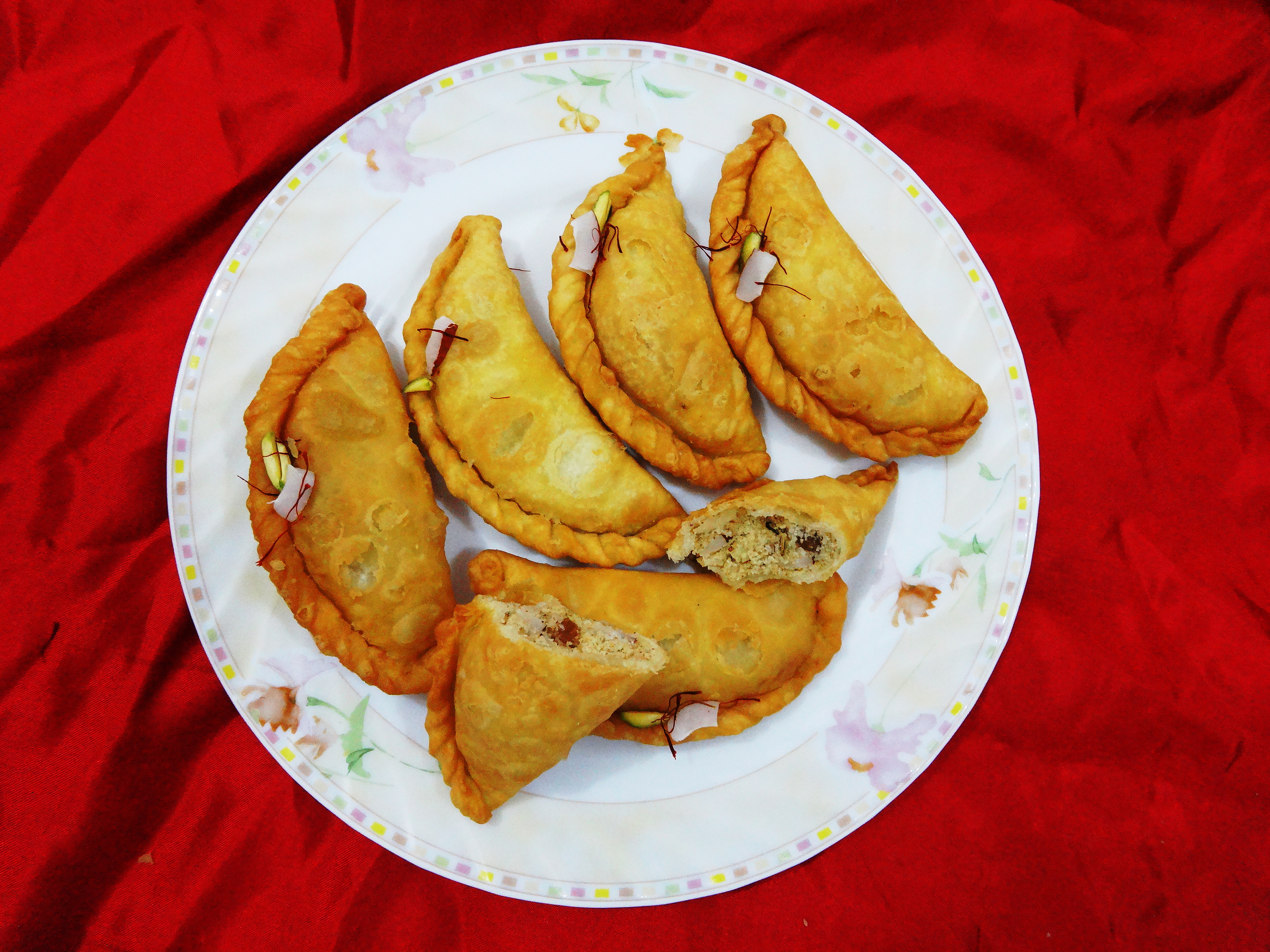 گجیا، Gujhia